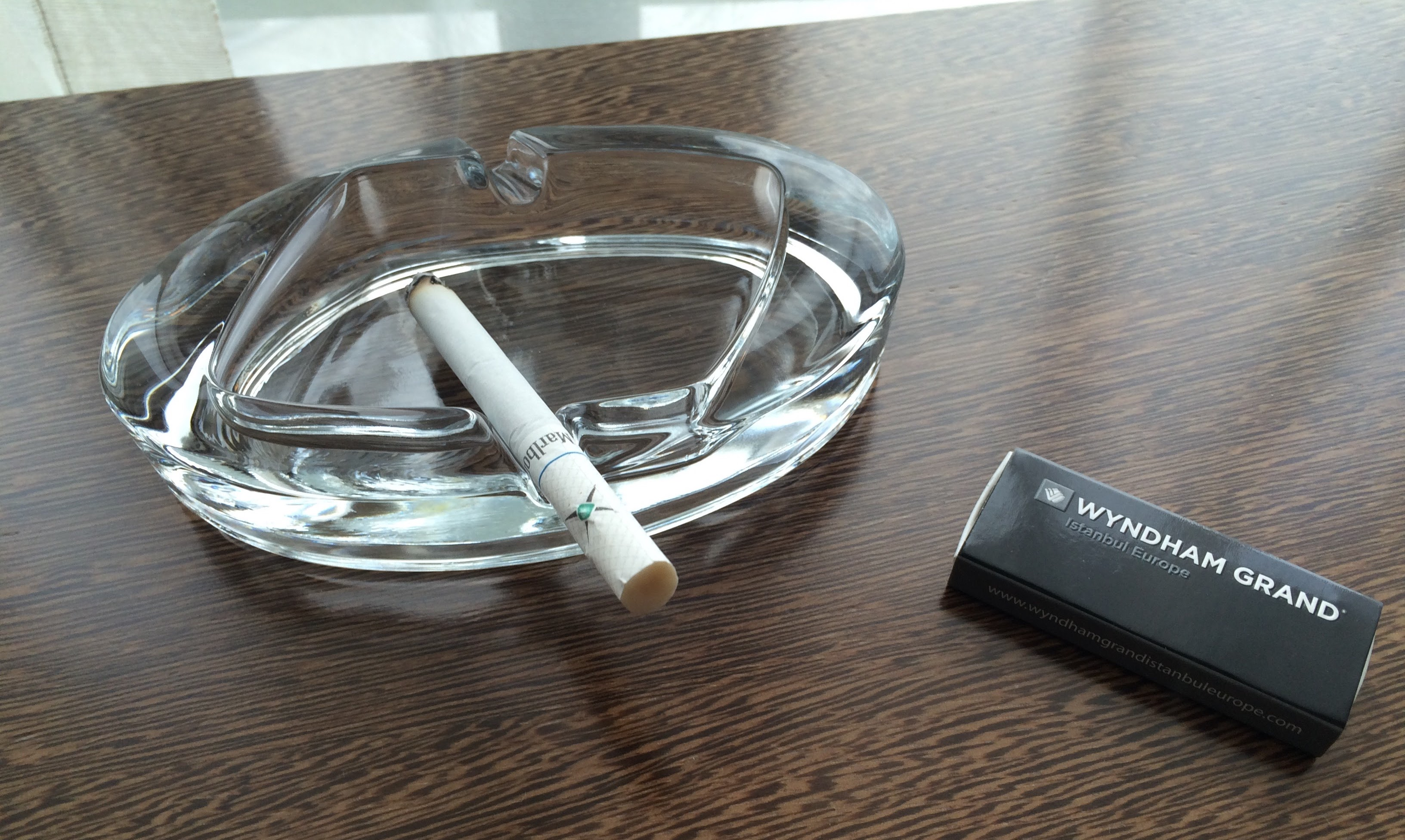 A glass ashtray